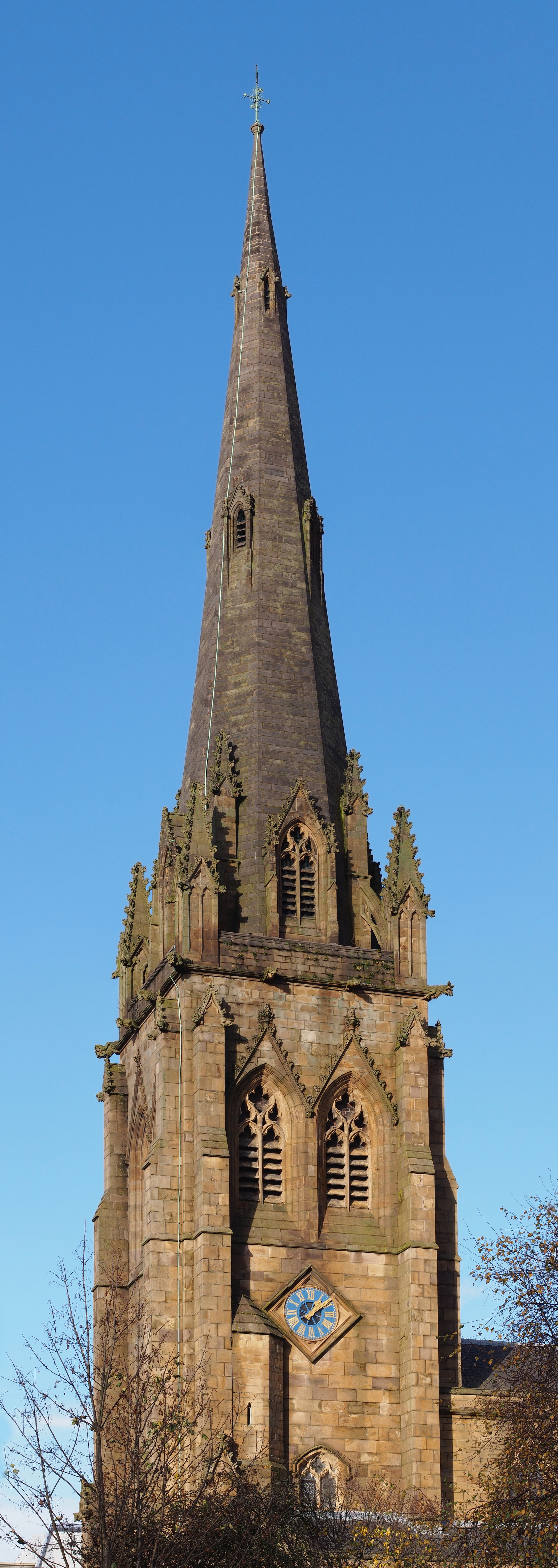 Spire of St John's Minster, Preston, Lancashire, England